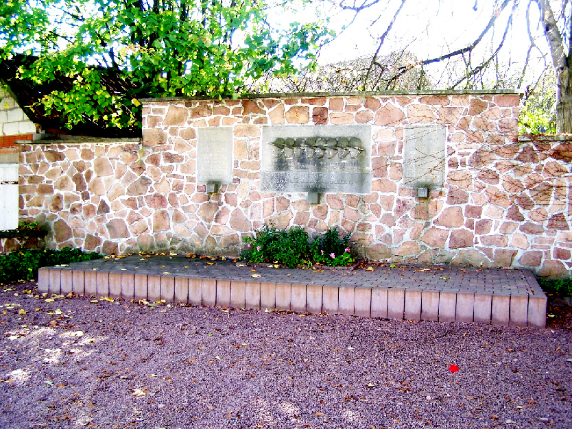 The monument for the victims of the wars.